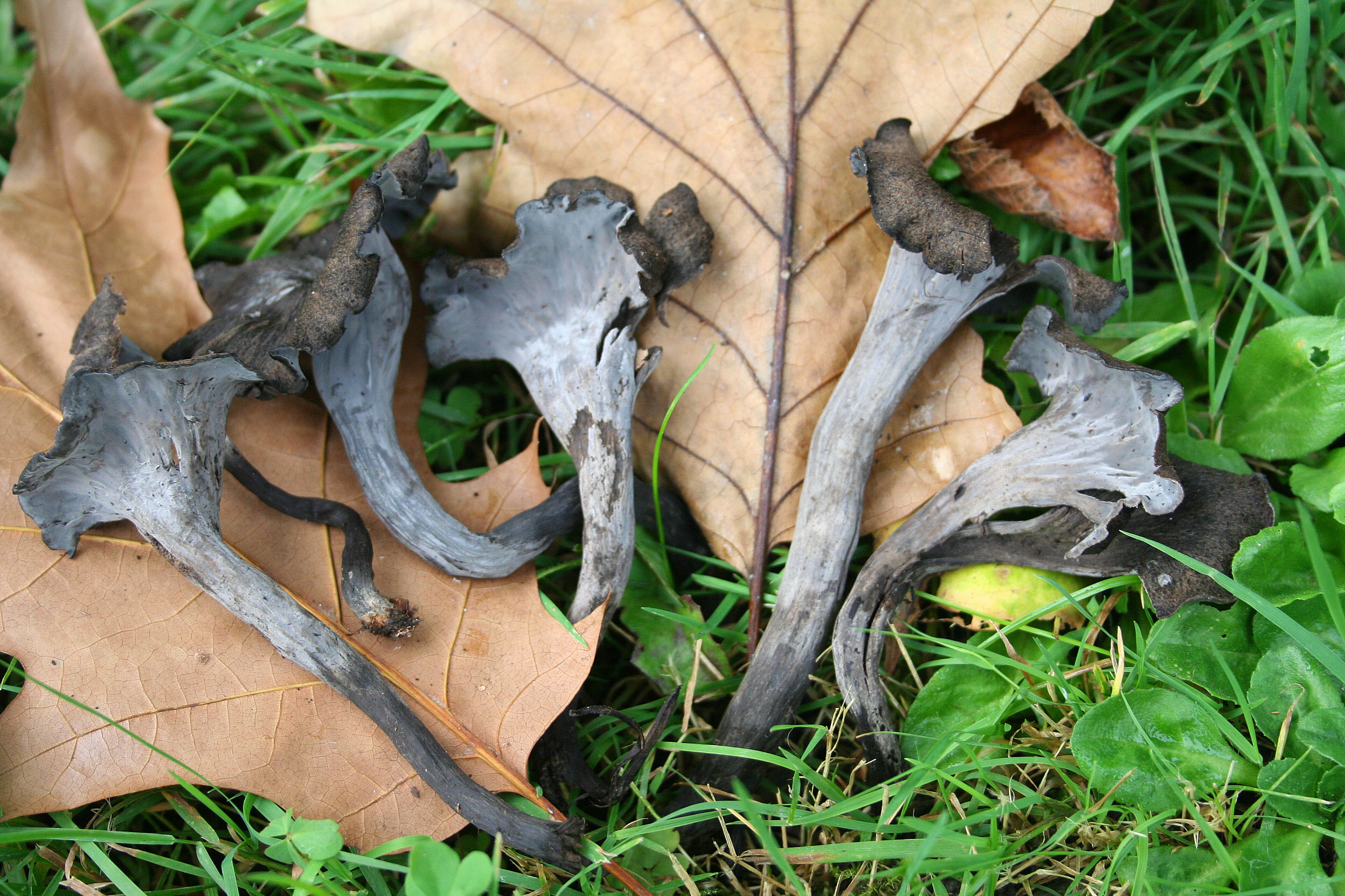 Black chanterelle, Havré, Belgium